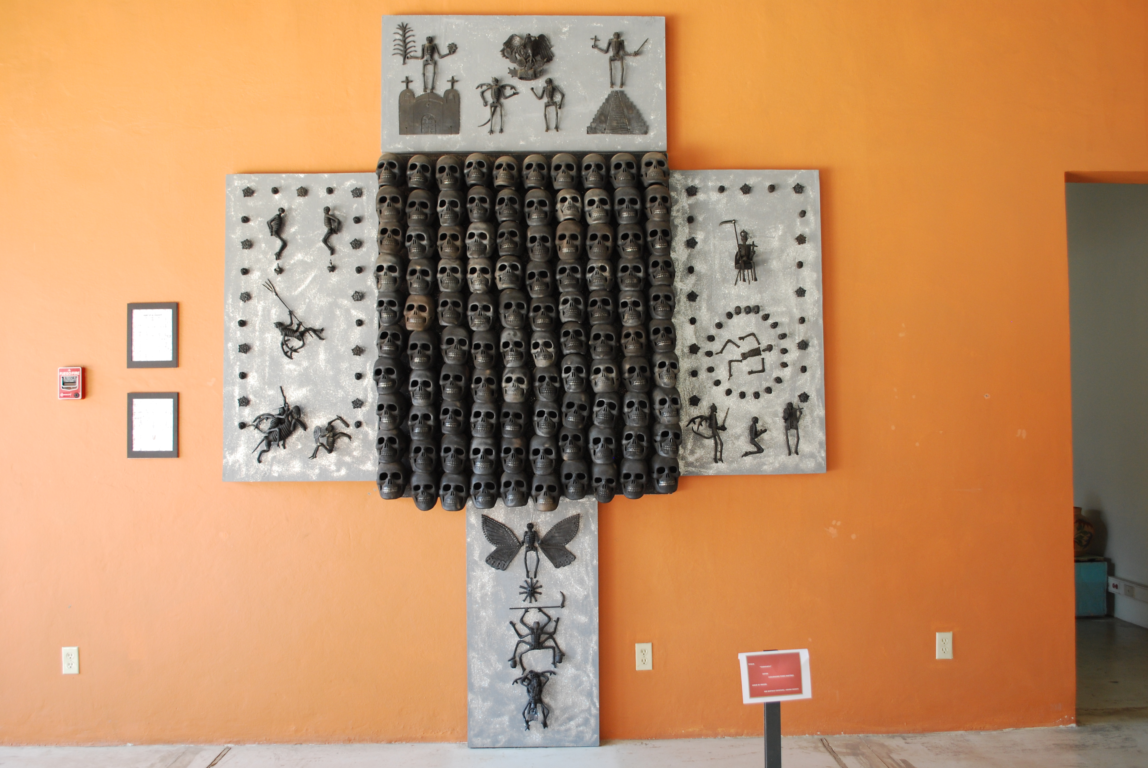 Display of a "barro negro mural" called Mural de la Conquista by Carlomagno Pedro Martinez at Museo Estatal de Arte Popular de Oaxaca in San Bartolo Coyotepec, Oaxaca, Mexico. See COM:CRT/Mexico#Freedom of panorama